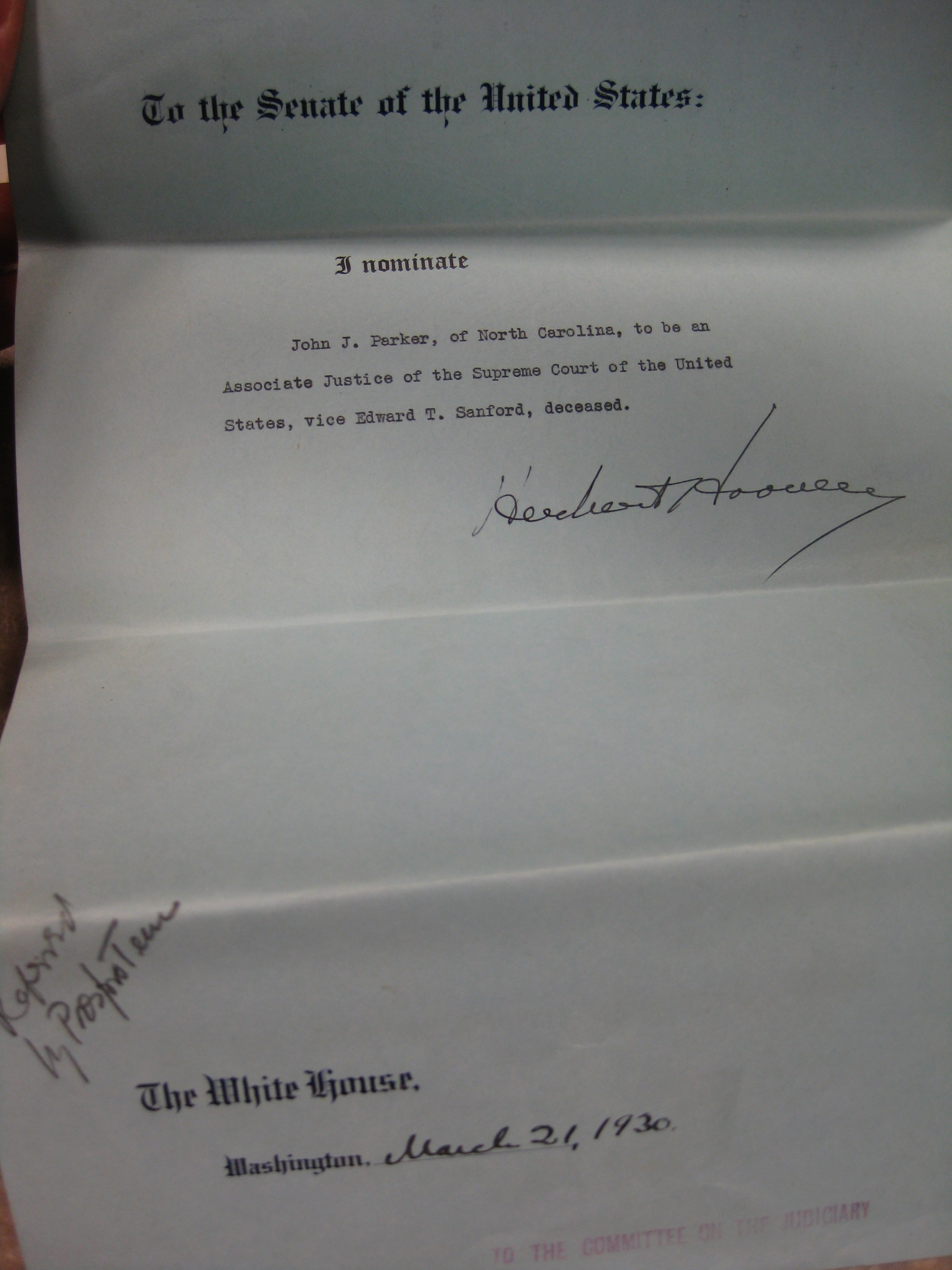 Herbert Hoover's nomination of John J. Parker to serve on the U.S. Supreme Court. Courtesy of the National Archives and Records Administration.